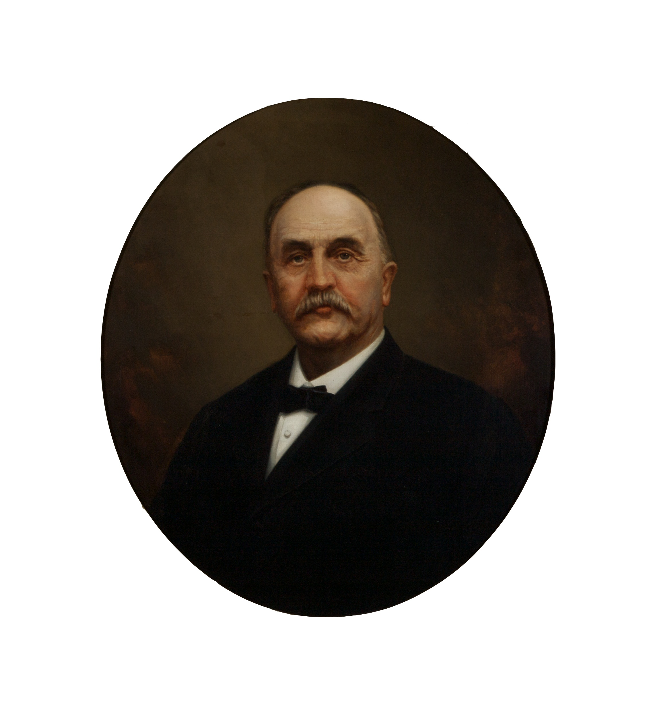 Oil on canvas portrait of Virginia Judge George Moffett Harrison